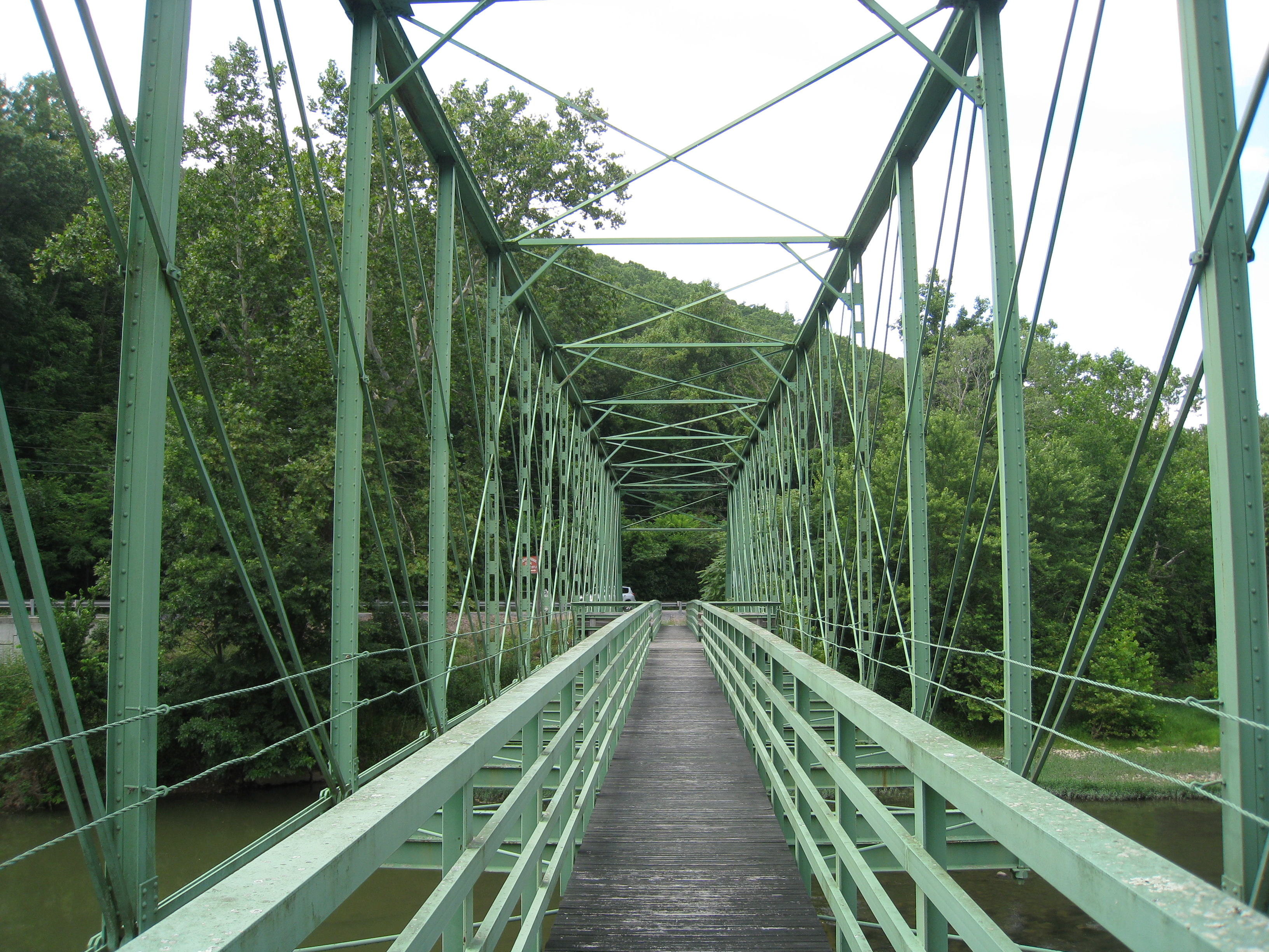 The Old Whipple Truss is an 1874 truss bridge on the Cacapon River at Capon Springs, West Virginia, United States. The Whipple Truss was originally constructed across the South Branch Potomac River near Romney and was re-erected at its present site in 1938 where it was in use until 1991.